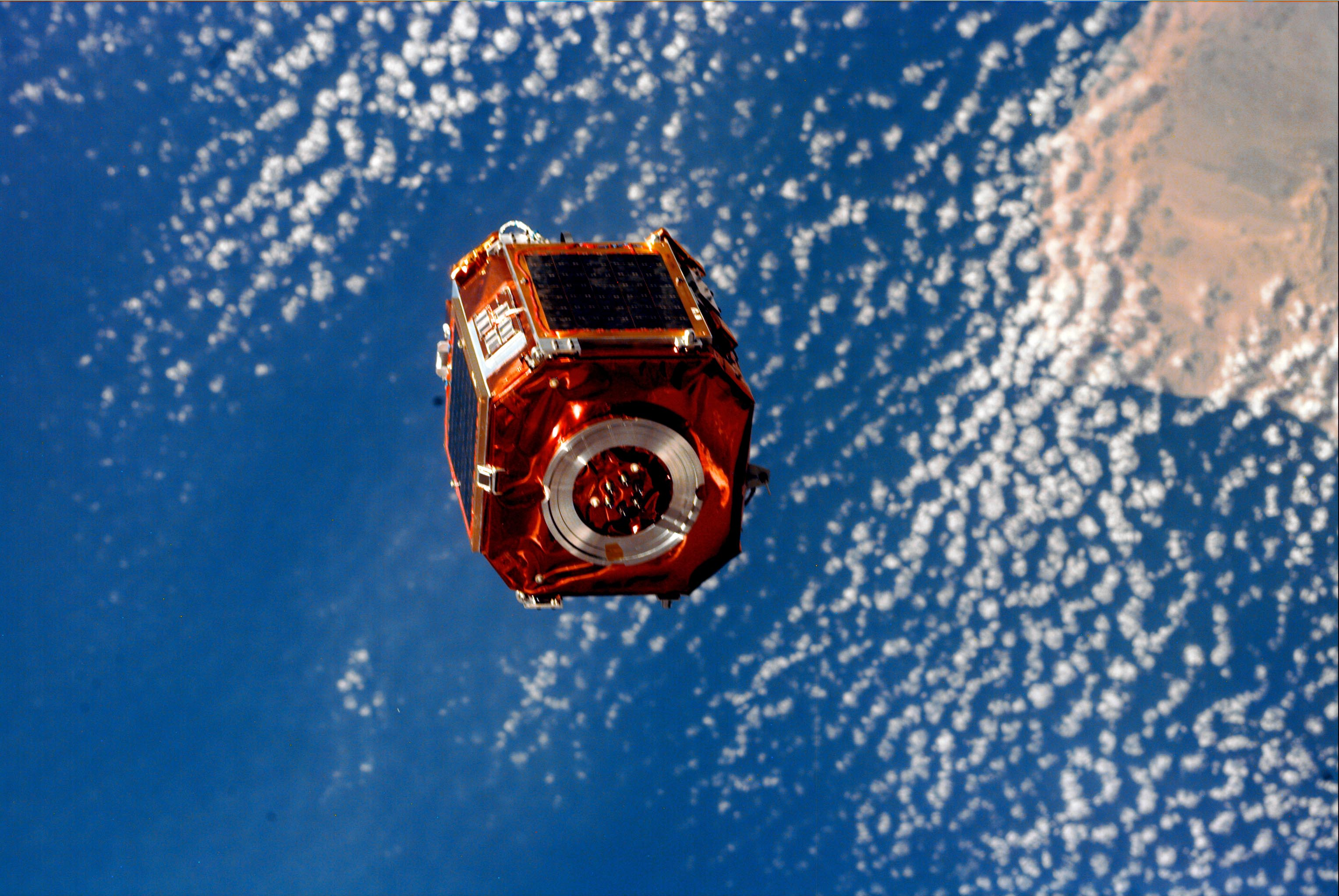 Argentinean Satellite SAC-A is deployed from Space Shuttle STS-88